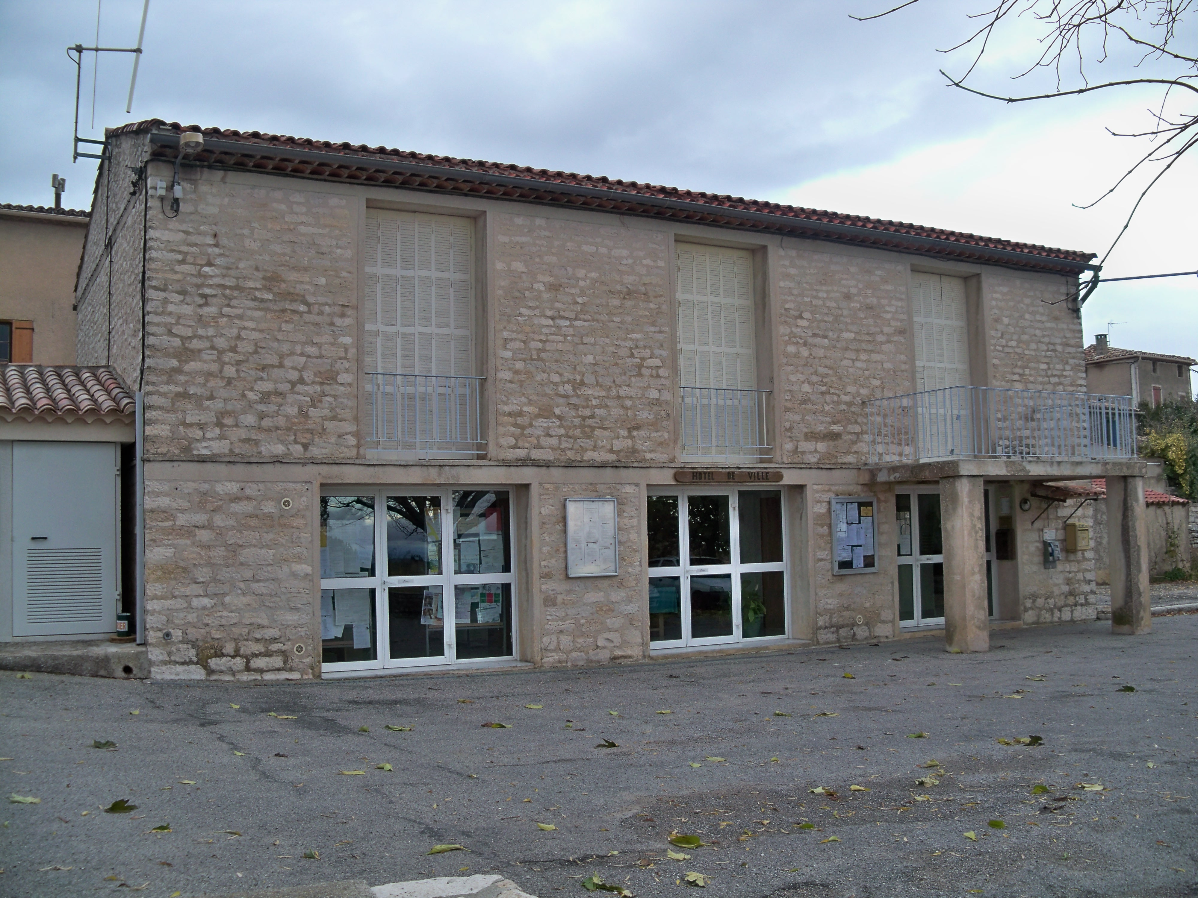 Town hall of Vachères (Alpes de Haute Provence, France)